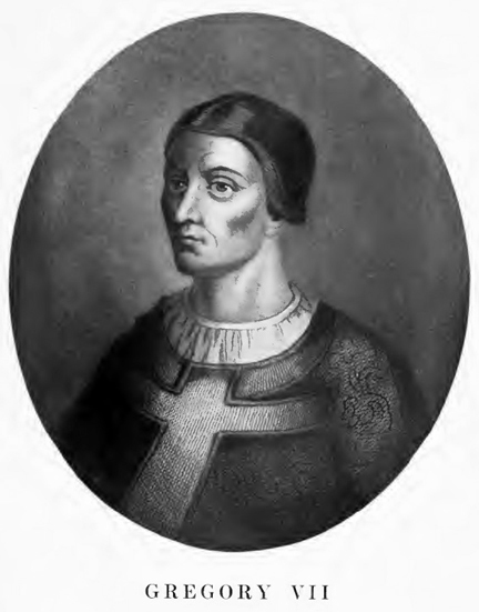 This illustration is from The Lives and Times of the Popes by Chevalier Artaud de Montor, New York: The Catholic Publication Society of America, 1911. It was originally published in 1842.